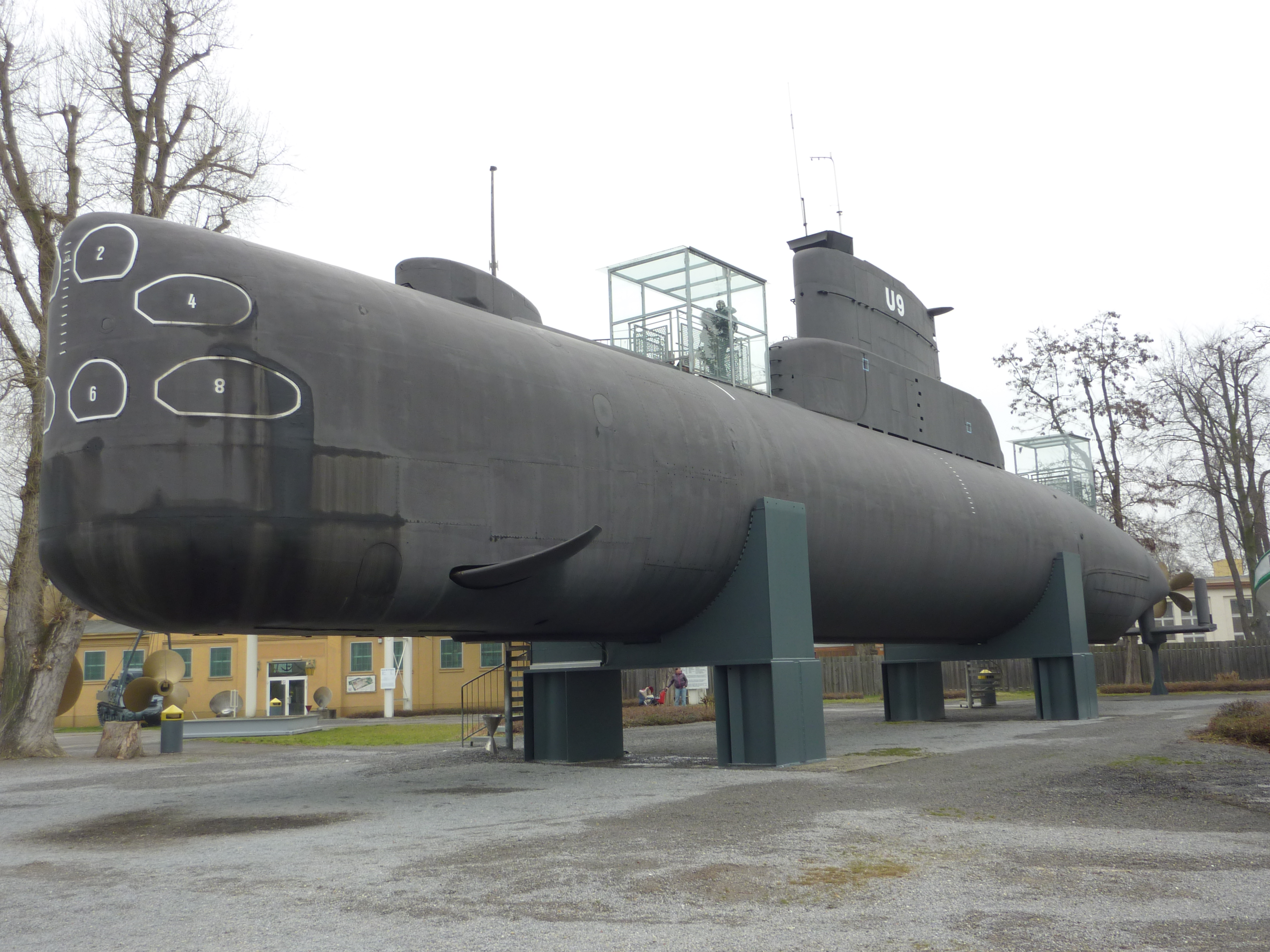 German museum ship U-9, a Type 205 submarine now placed in Technikmuseum Speyer, Germany.